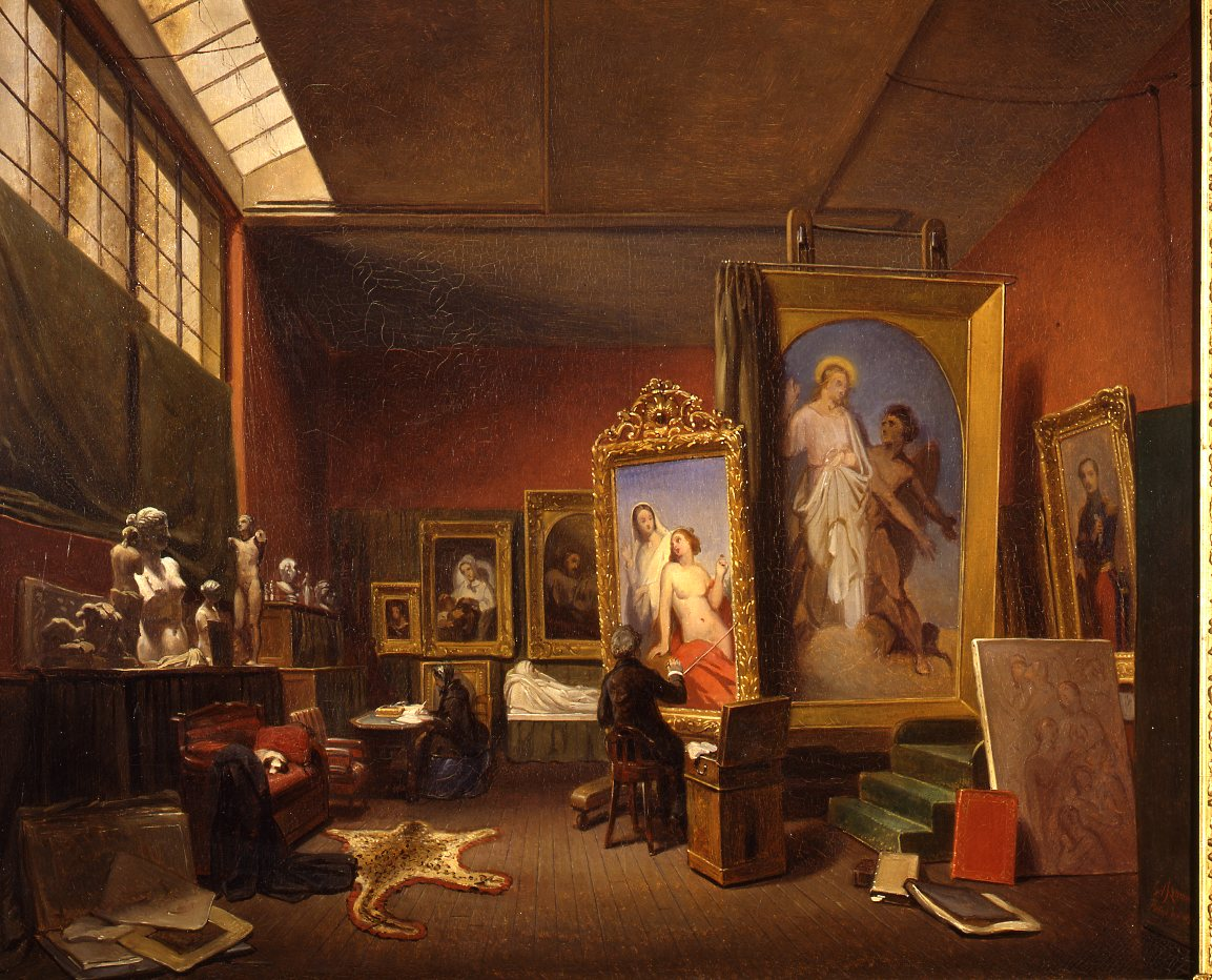 Le grand atelier